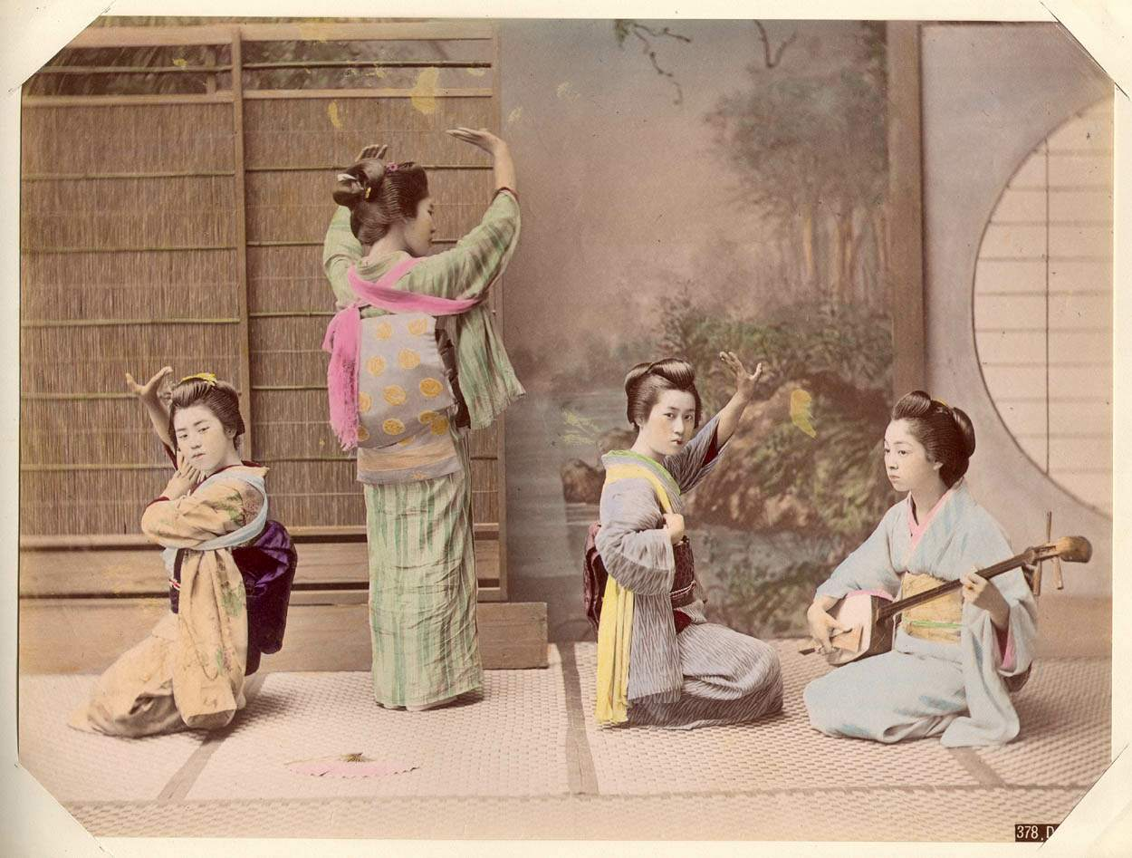 albumen